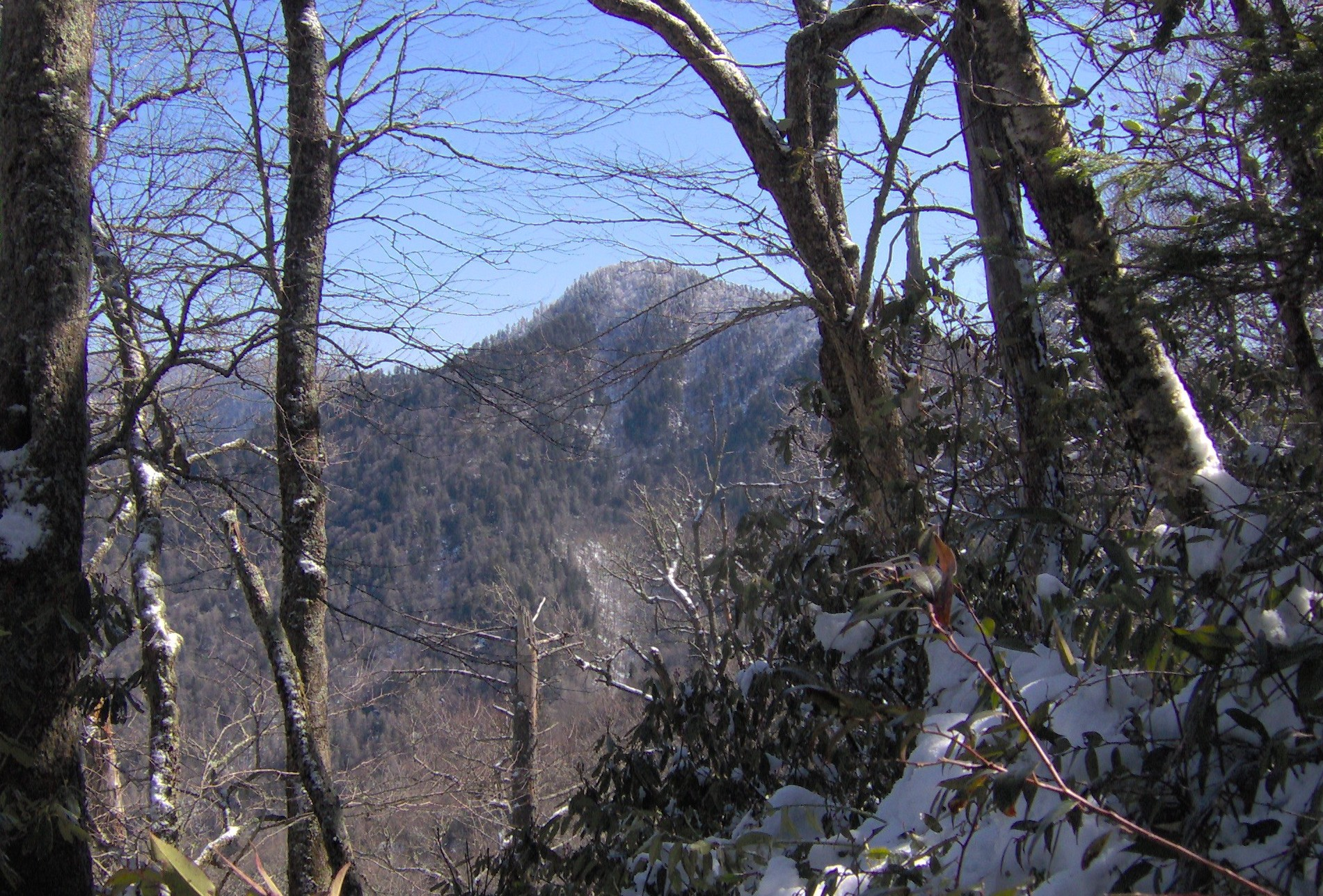 Mount Mingus, viewed from the Sugarland Mountain Trail in the Great Smoky Mountains of the southeastern United States. This minor foliage window is located on the west slope of the mountain, appx. 10 miles from the trailhead.